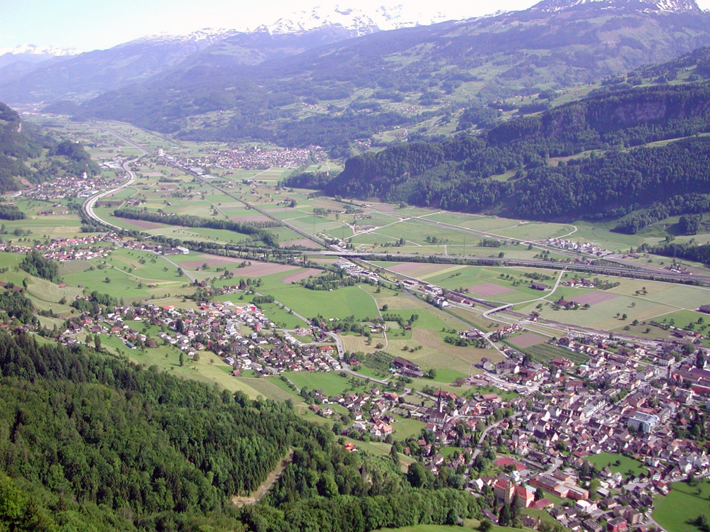 Area of Walenstadt towards Sargans (Switzerland)